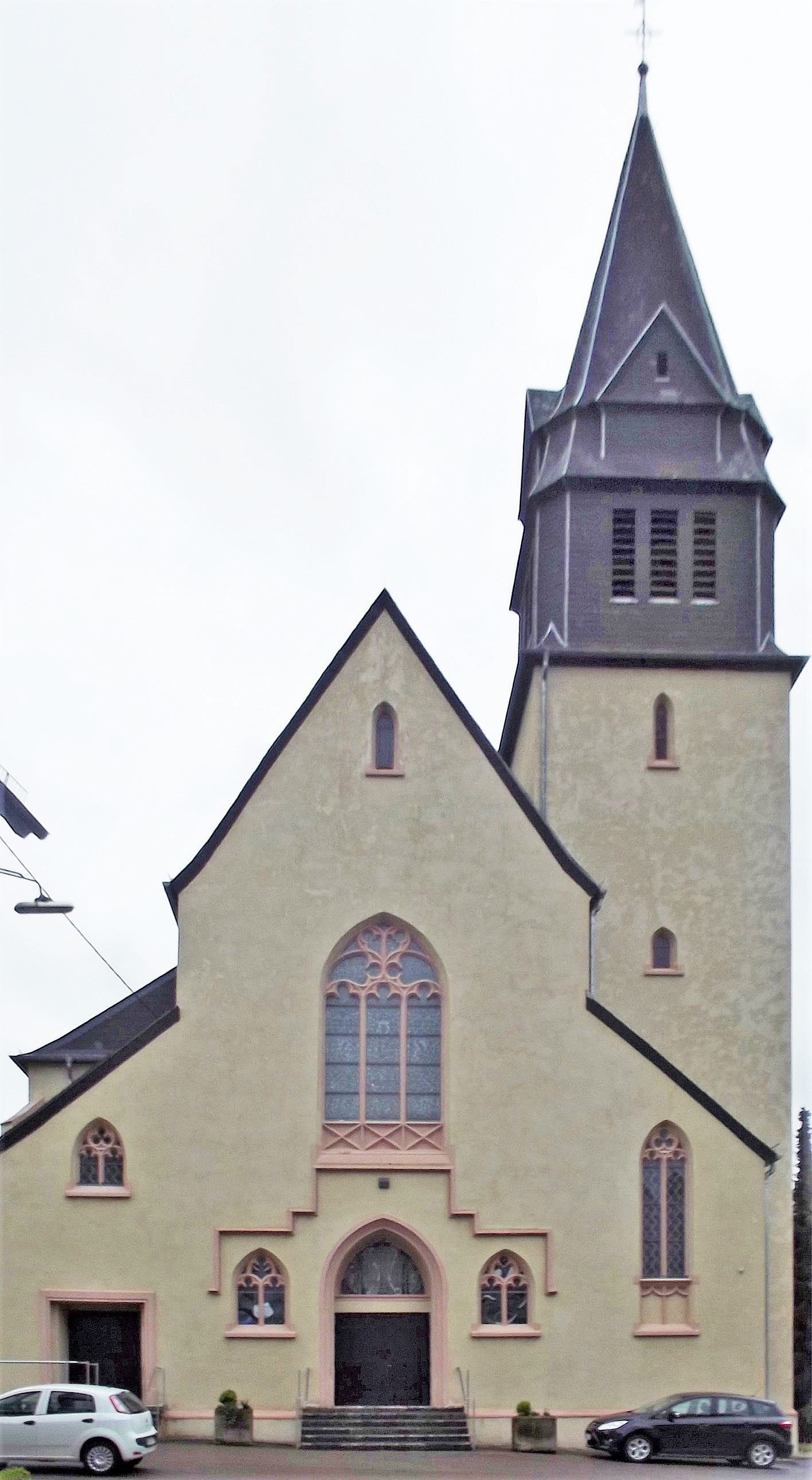 Exterior of the roman catholic church in Oberthal, Saarland